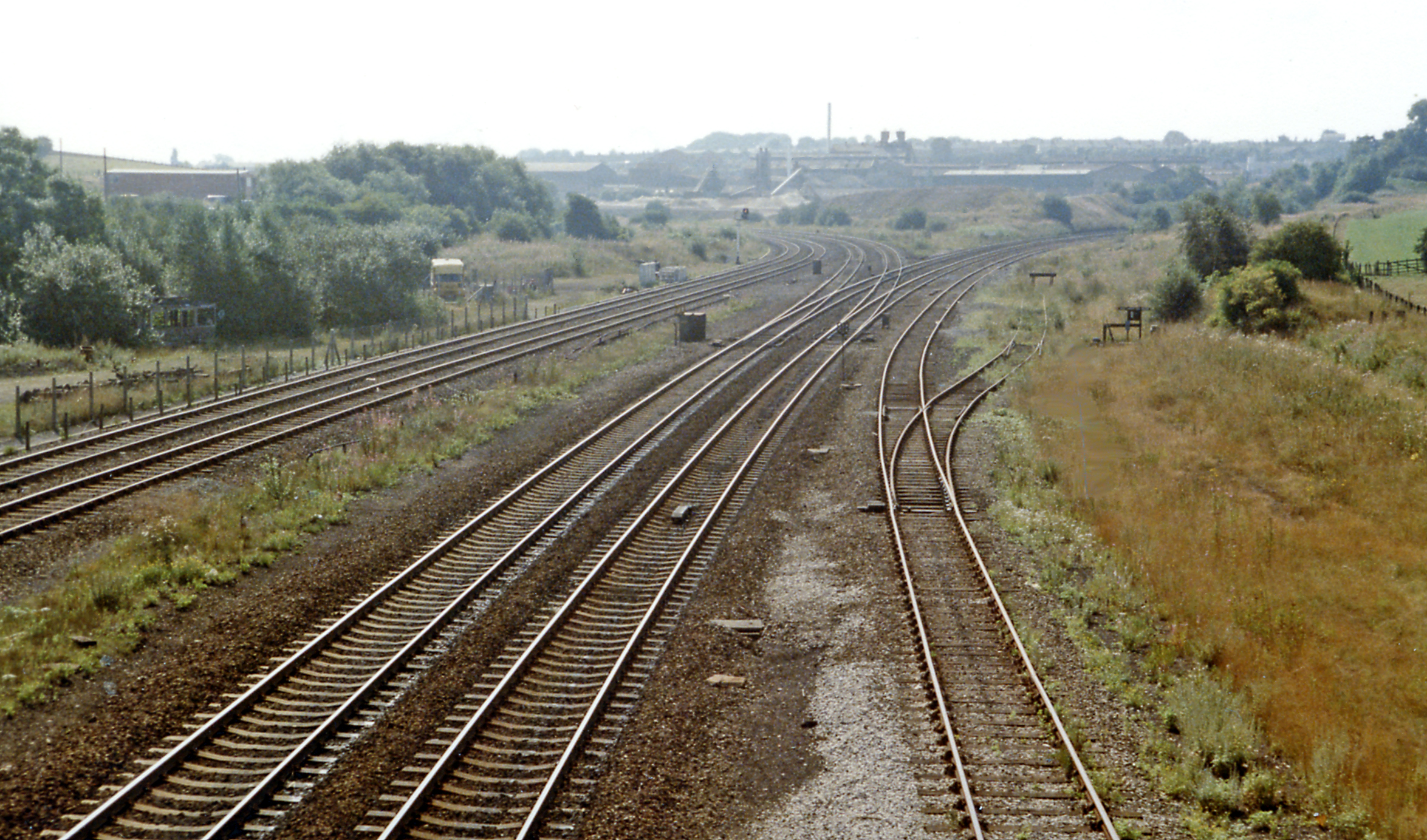 Site of Clay Cross station, 1983, View southward on ex-Midland trunk lines, from Sheffield, Leeds etc, via Chesterfield, towards Nottingham and the South by the Erewash Valley line (to left), Derby, Birmingham and the South-West (to the right). In former days, 20+ years before, there would always have been at least one train in this scene, but in 1983 - even on a Summer Saturday there was nothing in sight. Virtually no trace of the four-platform station can be seen either. ED NOTE: By 2008 even the junction (Clay Cross South) had disappeared all though both lines remain extremely busy)